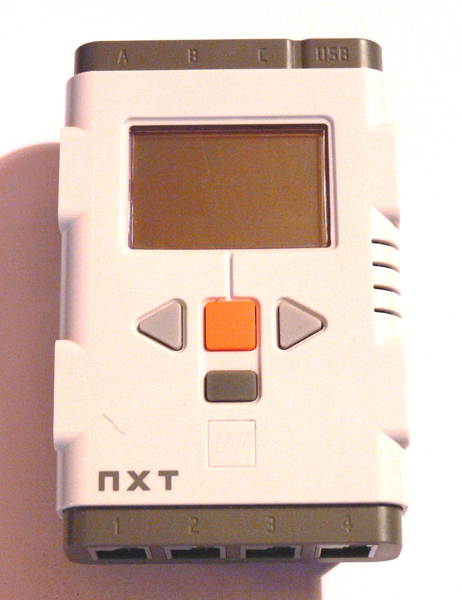 Mindstorms NXT.